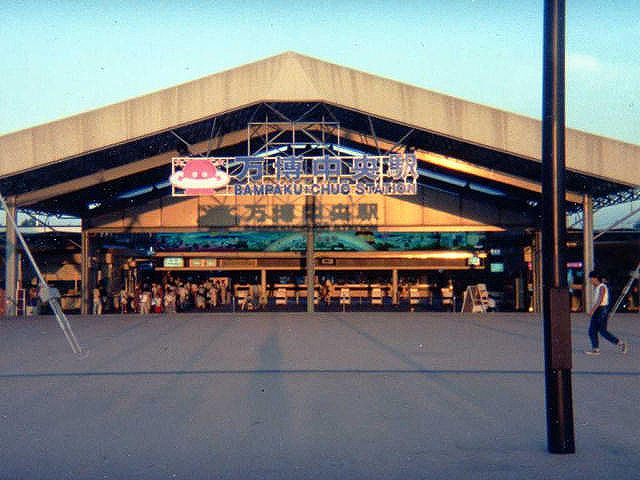 Bampaku-Chuo Station